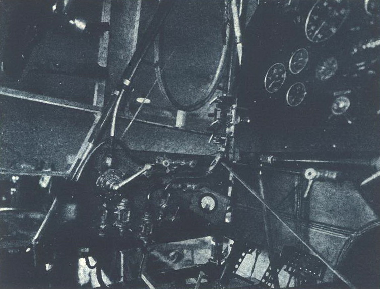 Bellanca TES Tandem (X/NR855E) - the cockpit.